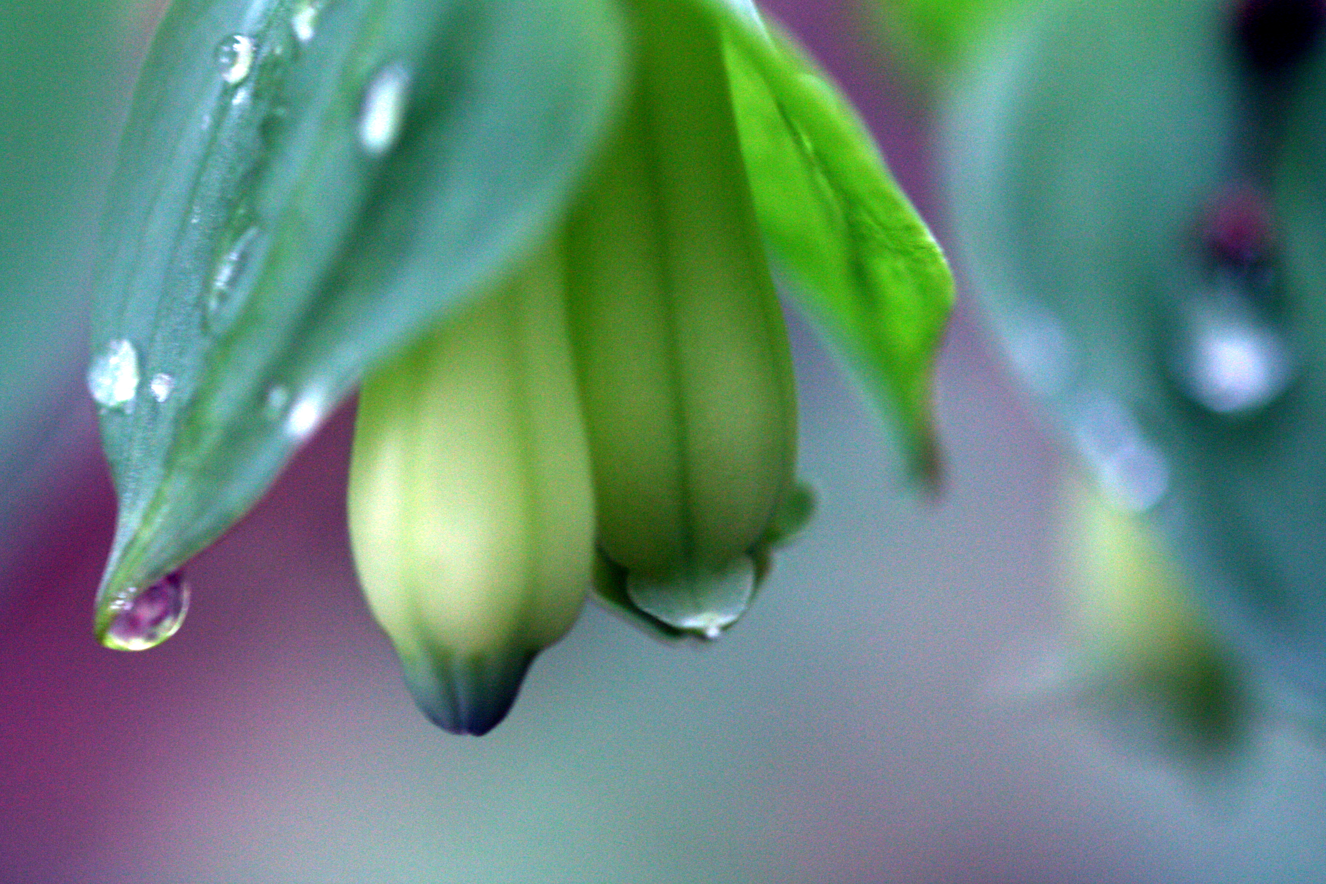 Polygonatum involucratum